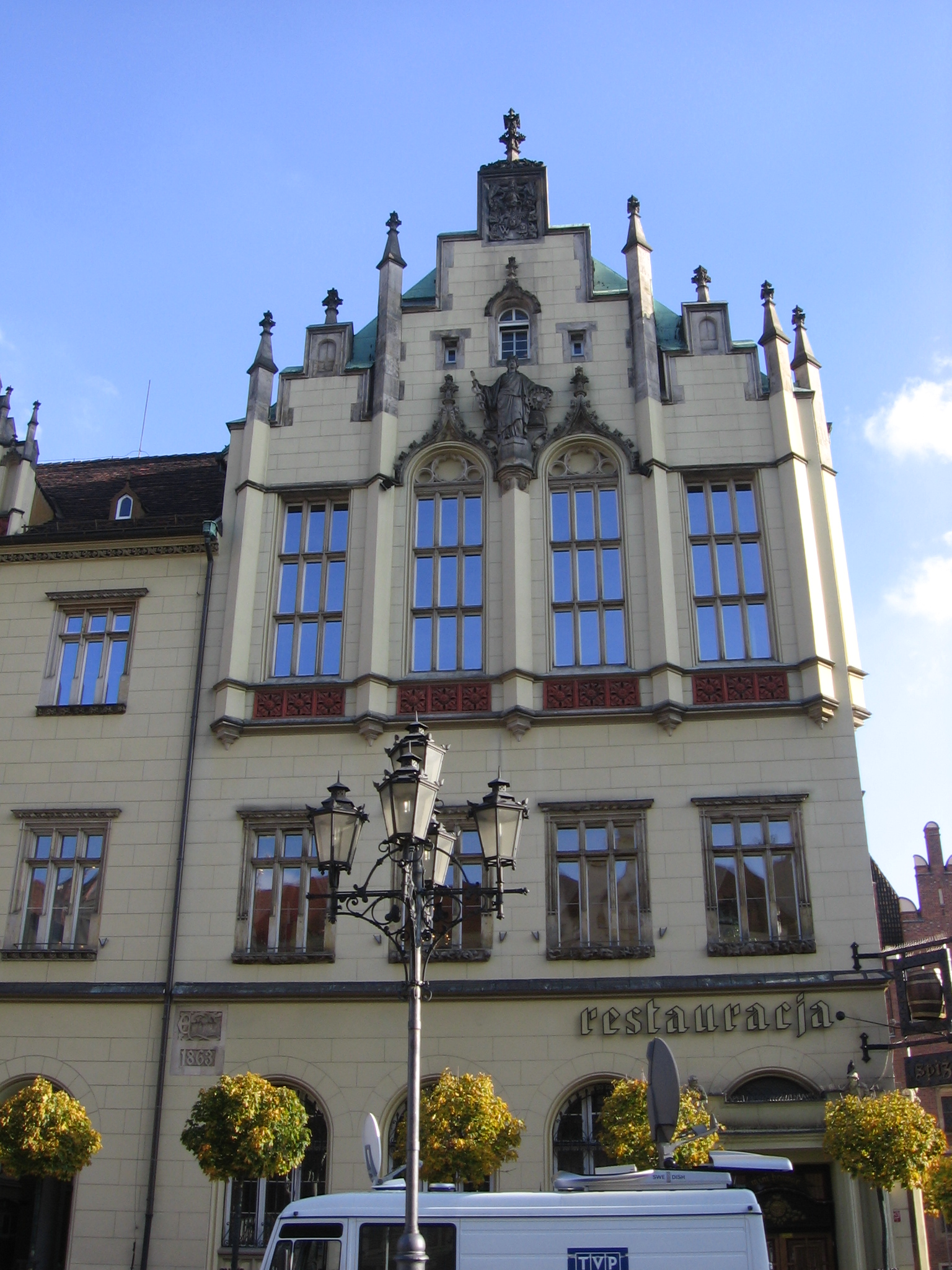 New Town Hall in Wrocław, South Gable